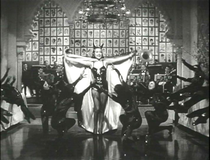 Screenshot of Ethel Merman from the trailer for the film Alexander's Ragtime Band